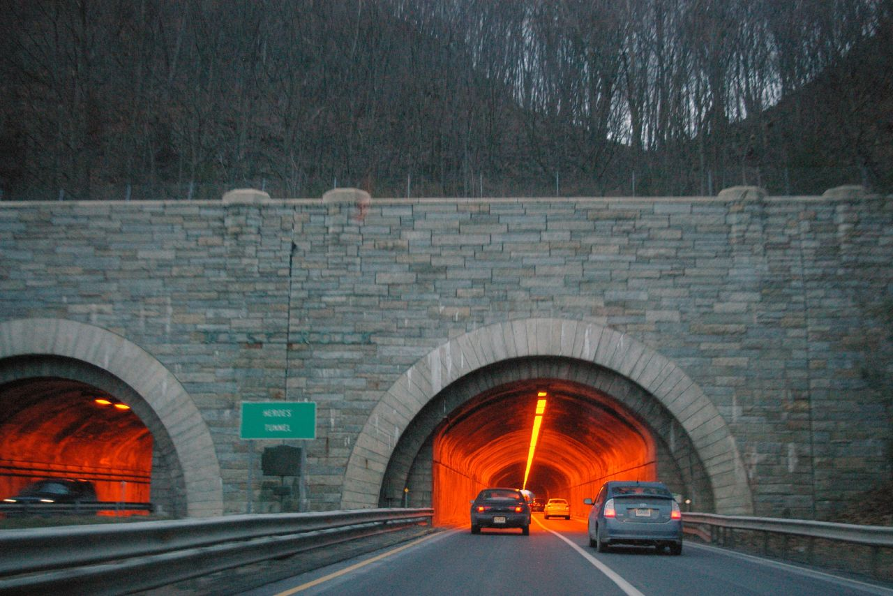 Jan 28, 2007 - enroute to Hartford, Connecticut.